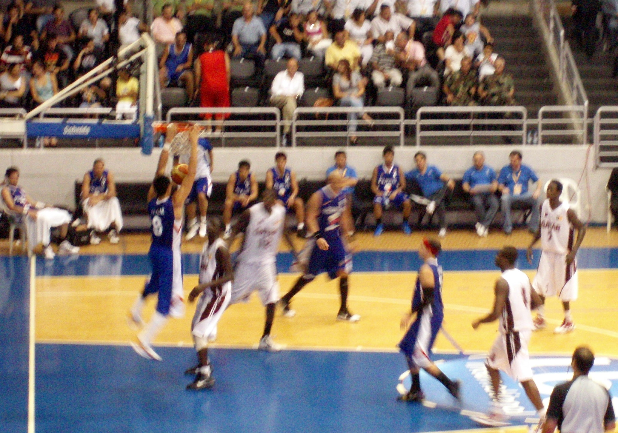 Japeth Aguilar Dunks against Qatar during the Stankovic Cup 2010